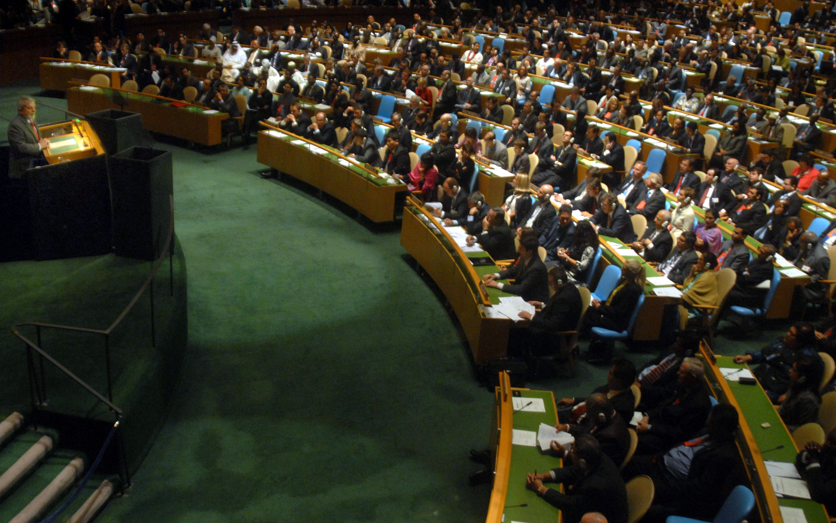 The 62nd General Assembly of the United Nations begins on September 25, 2007. According to tradition since the 1970's, a Brazilian gives the inaugural speech.